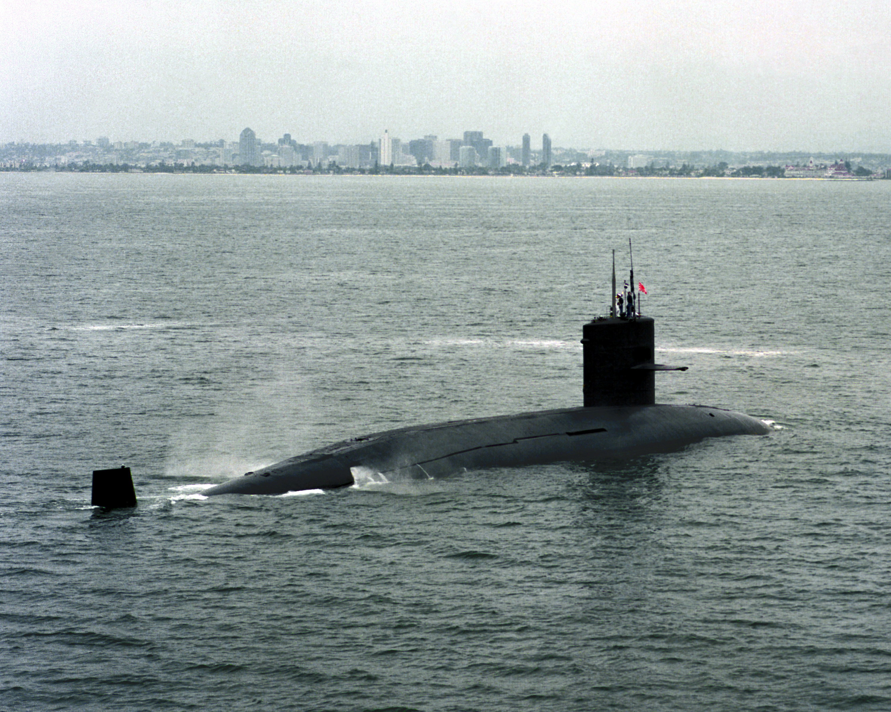 Japanese Maritime Self-Defense Force submarine Mochishio (SS-574) arriving in San Diego to take part in the RIMPAC 92 exercise.